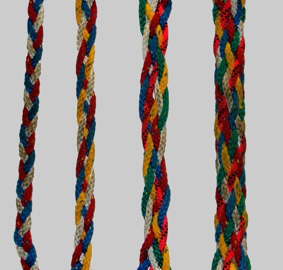 Braids with different number of yarns